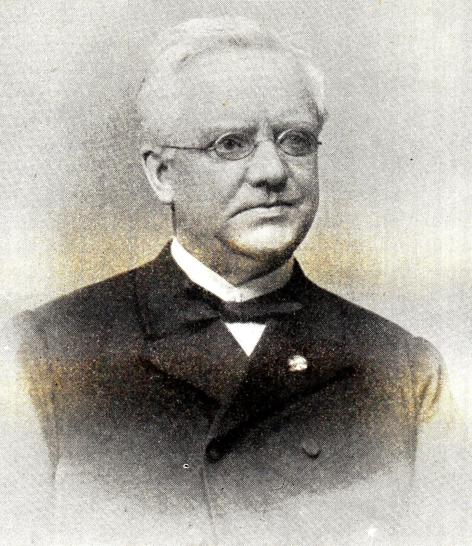 W.F.R. Suringar